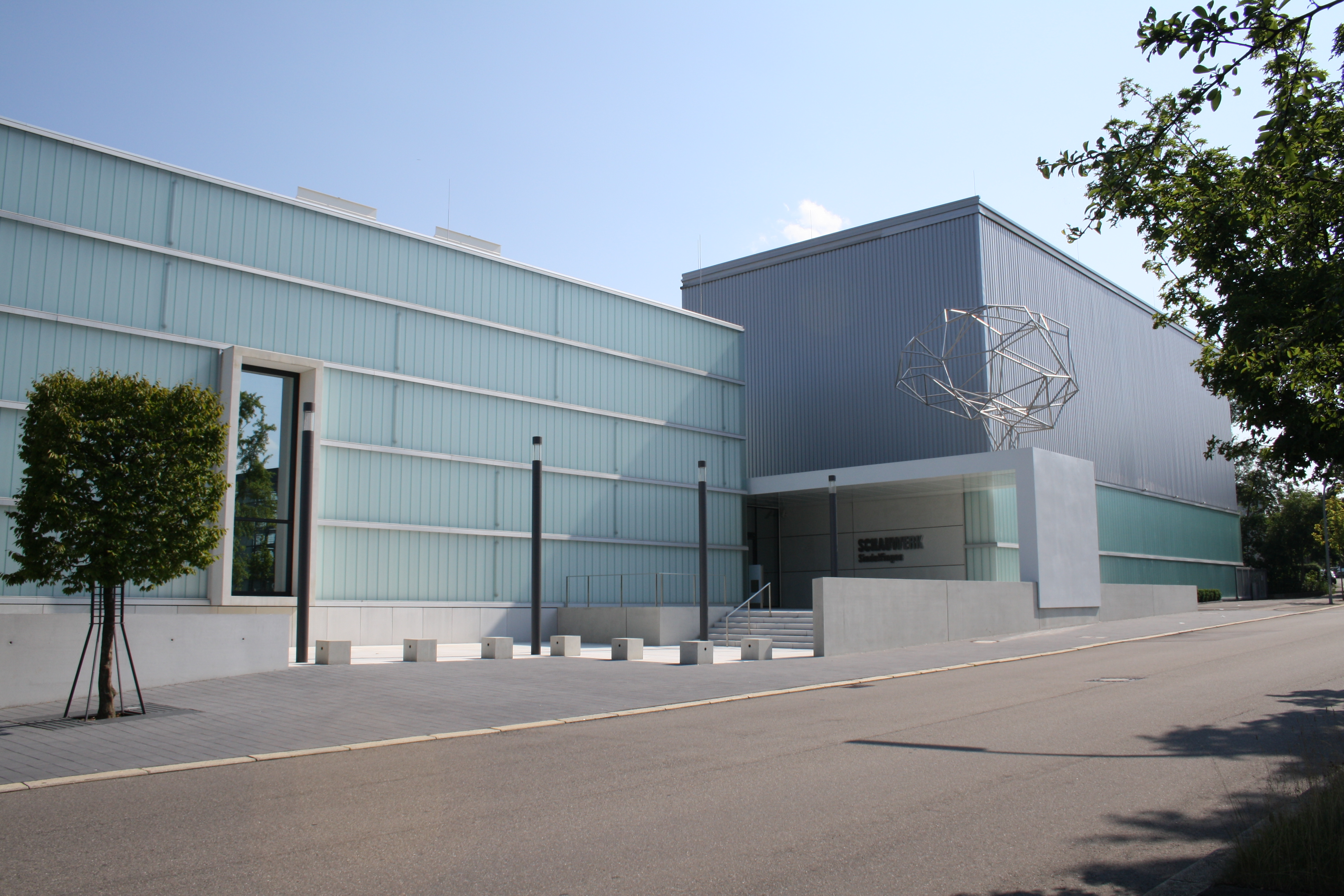 SCHAUWERK Sindelfingen - museum for contemporary art